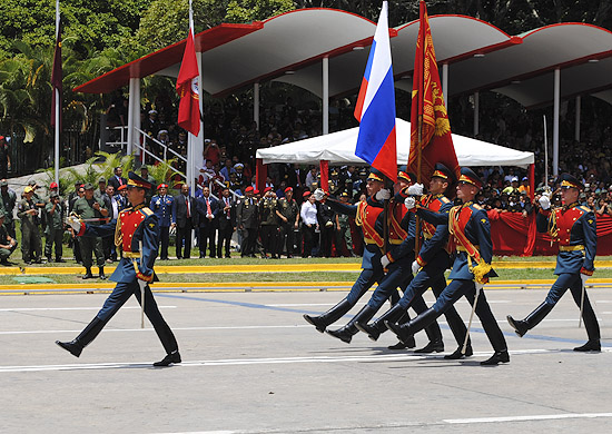 Взвод почетного караула отдельного комендантского полка принял участие в параде, посвященном 200-летию независимости Венесуэлы